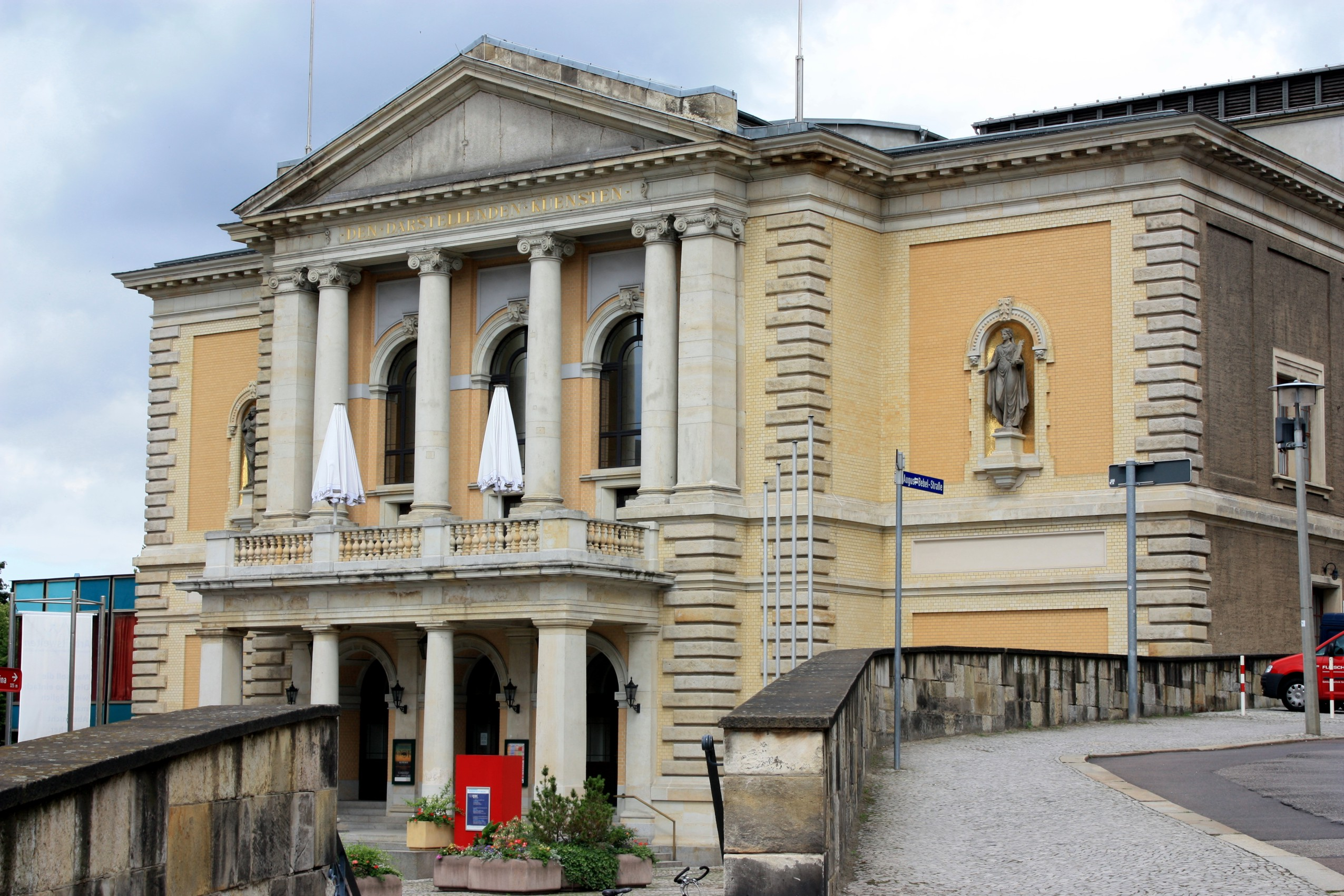 Halle (Saale), the opera house